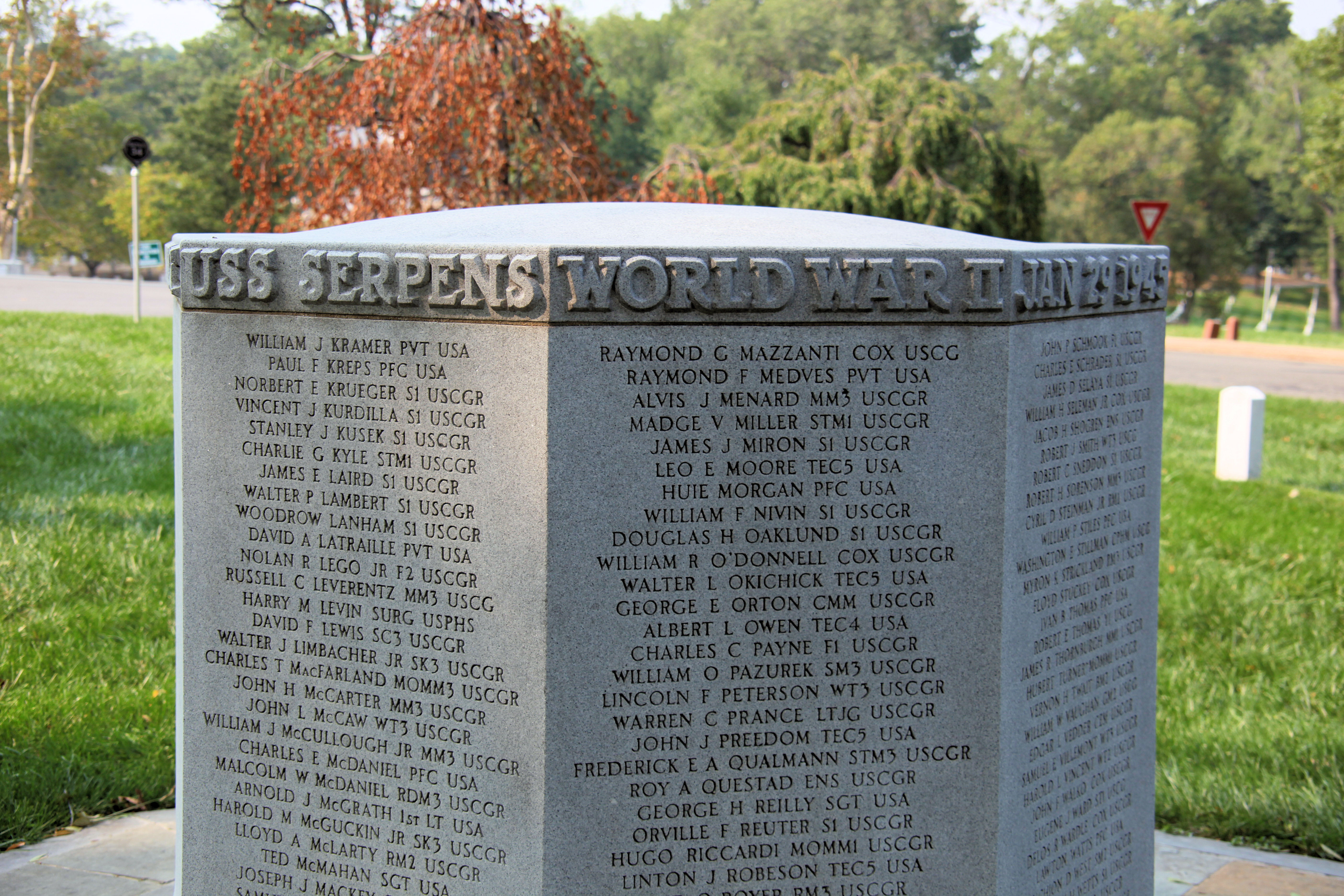 View of the west side of the the USS Serpens Memorial at Arlington National Cemetery near Arlington, Virginia, in the United States. This memorial is to the 253 members of the United States Coast Guard who died when the ship exploded on January 29, 1945, while anchored off Laguna Beach at the island of Guadalcanal. The loss of the Serpens remains the largest single disaster ever suffered by the U.S. Coast Guard as of 2011.